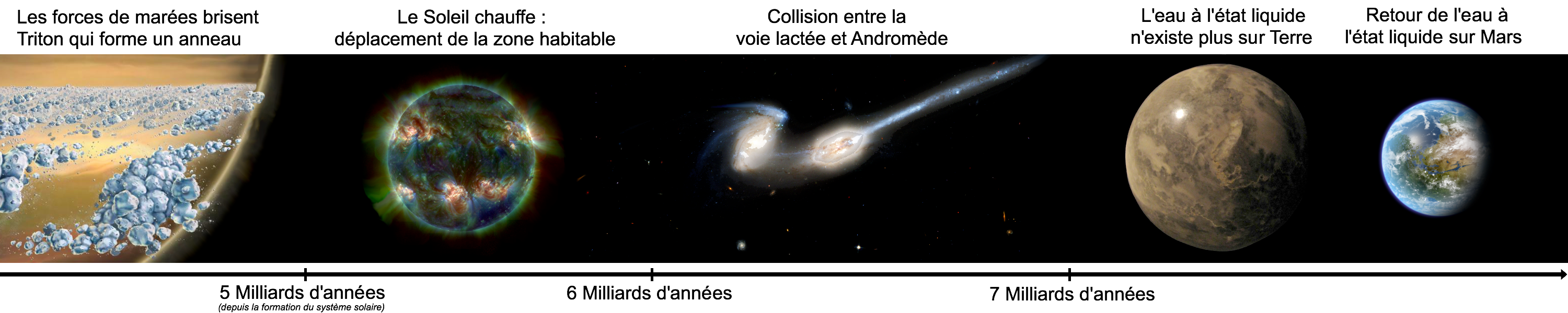 composition of the evolution of the solar system - Fith part